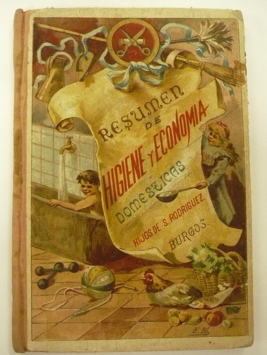 Cover of the book